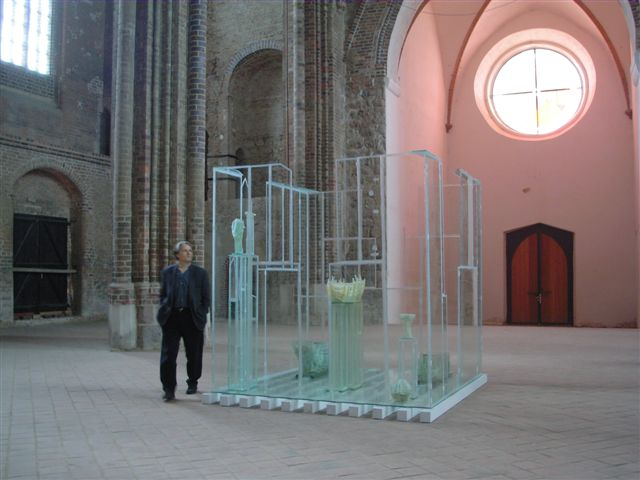 Artist Clemens Weiss with installation St. Marien Kirche, Prenzlau, Germany, 2005